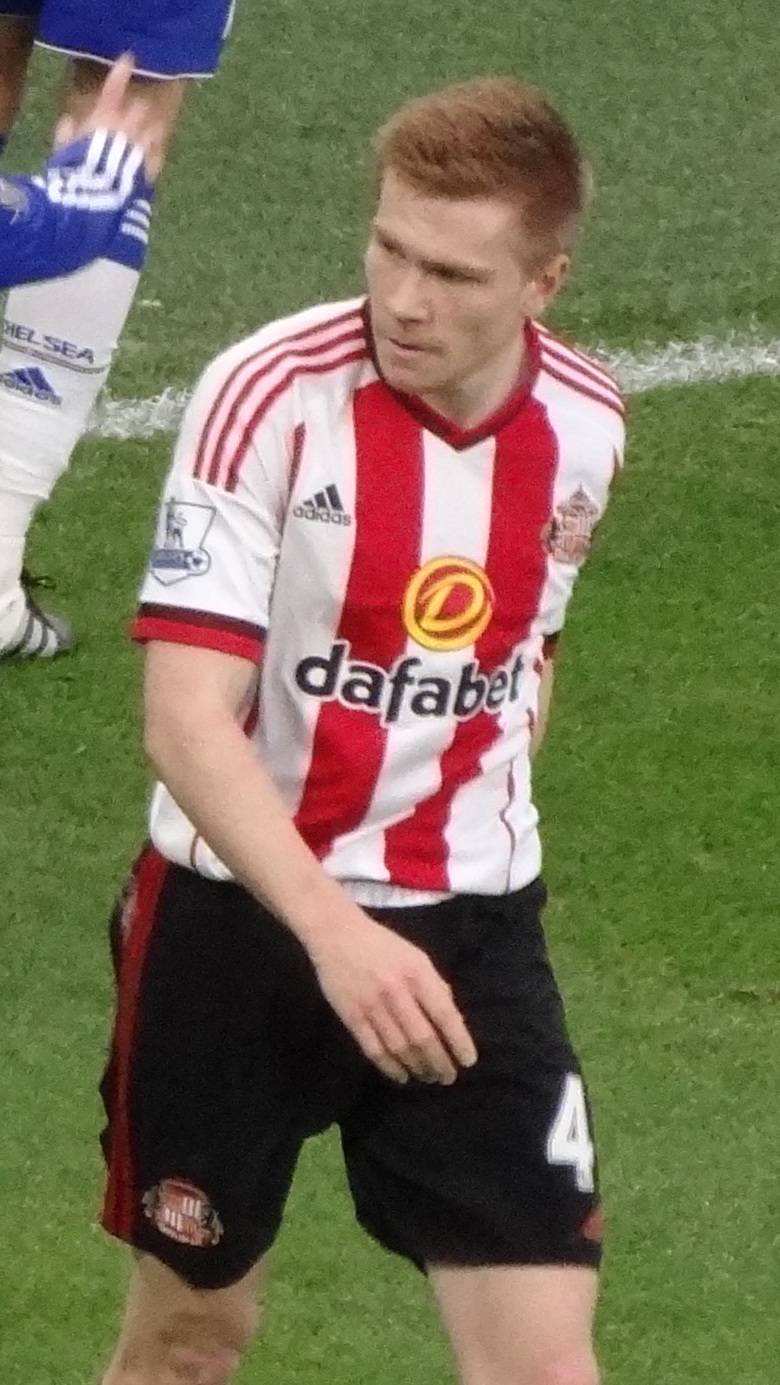 Duncan Watmore playing for Sunderland against Chelsea at Stamford Bridge, London on 29 December 2015